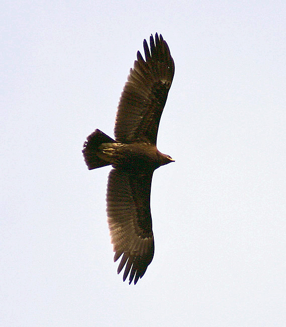 Greater Spotted Eagle Aquila clanga at Bharatpur, Rajasthan, India.